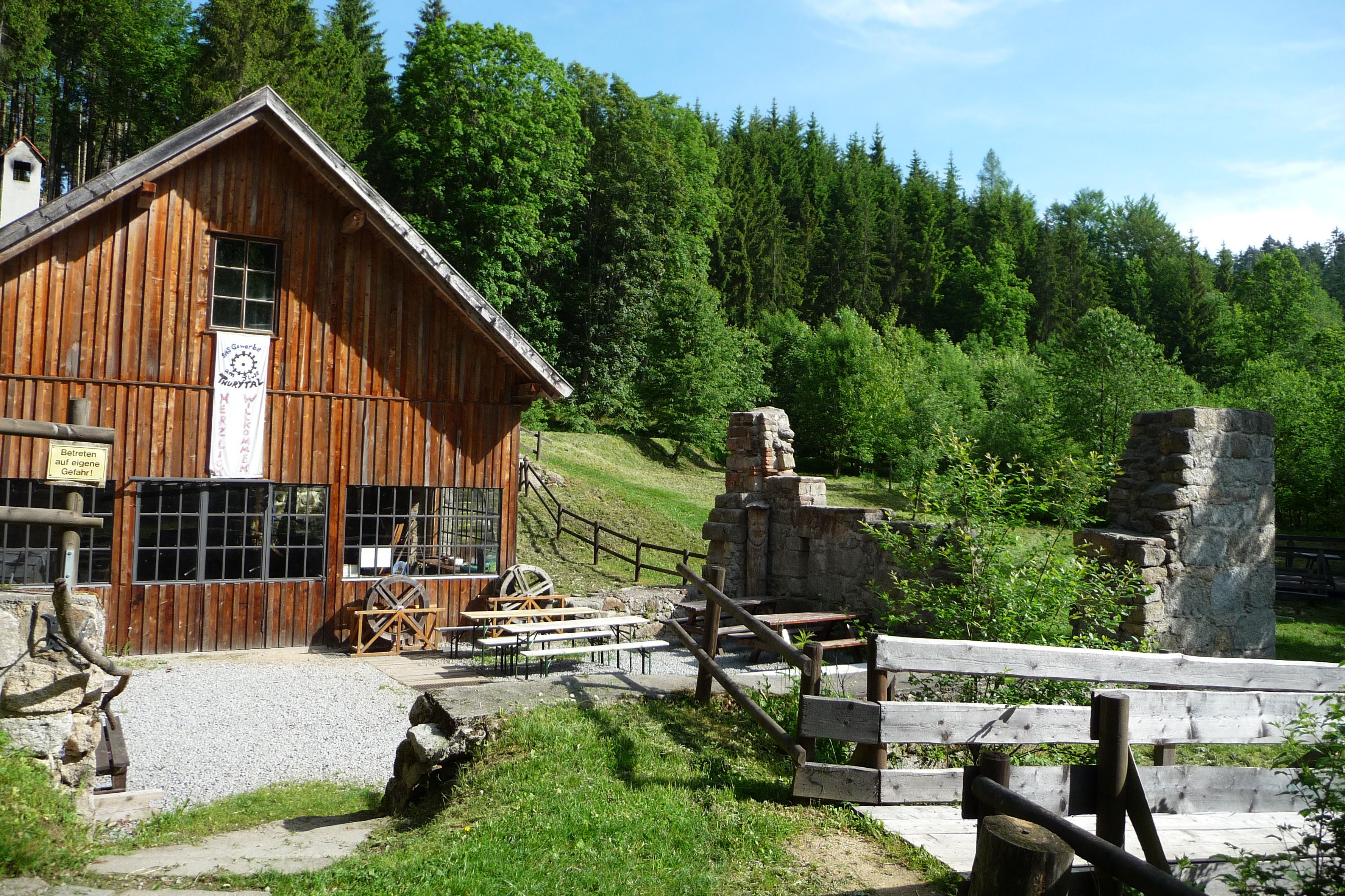 2nd Thuryhammer - Mueseum